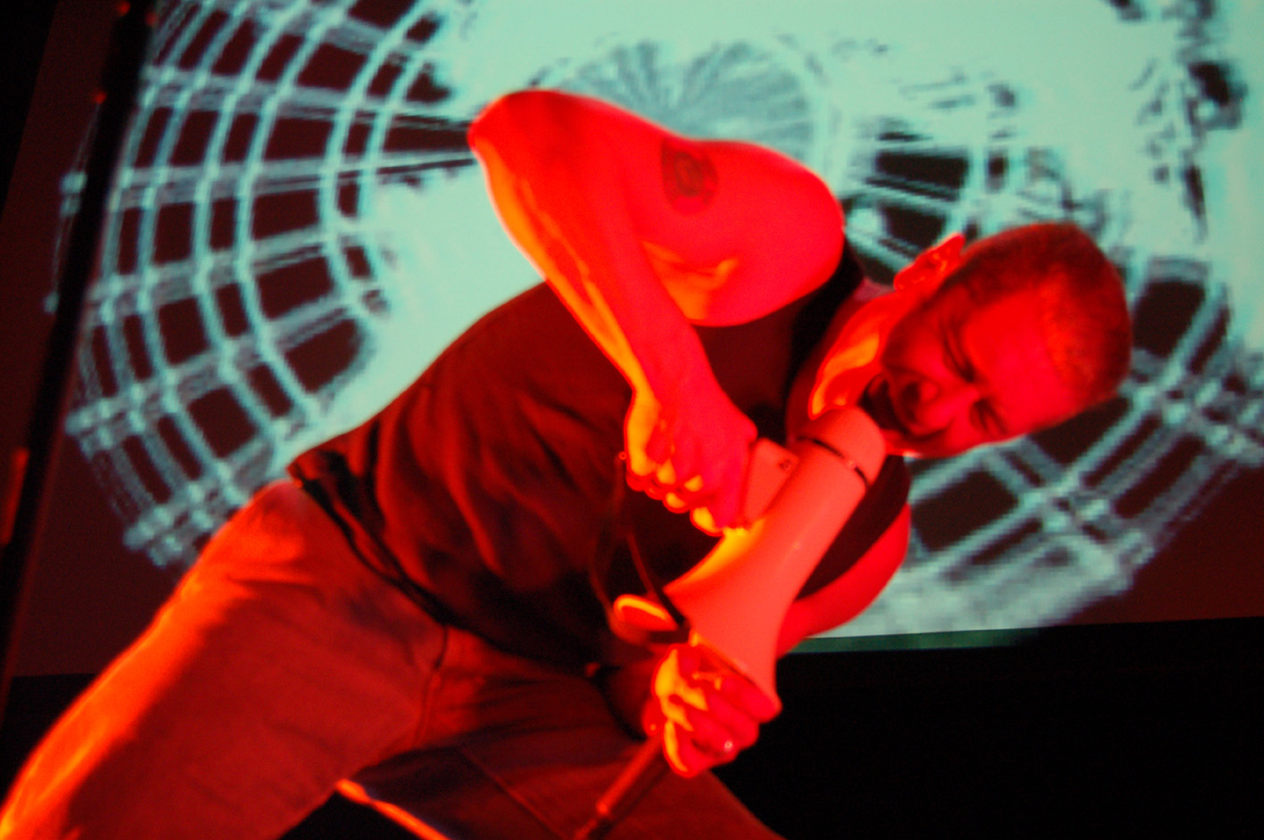 Performance Artwork